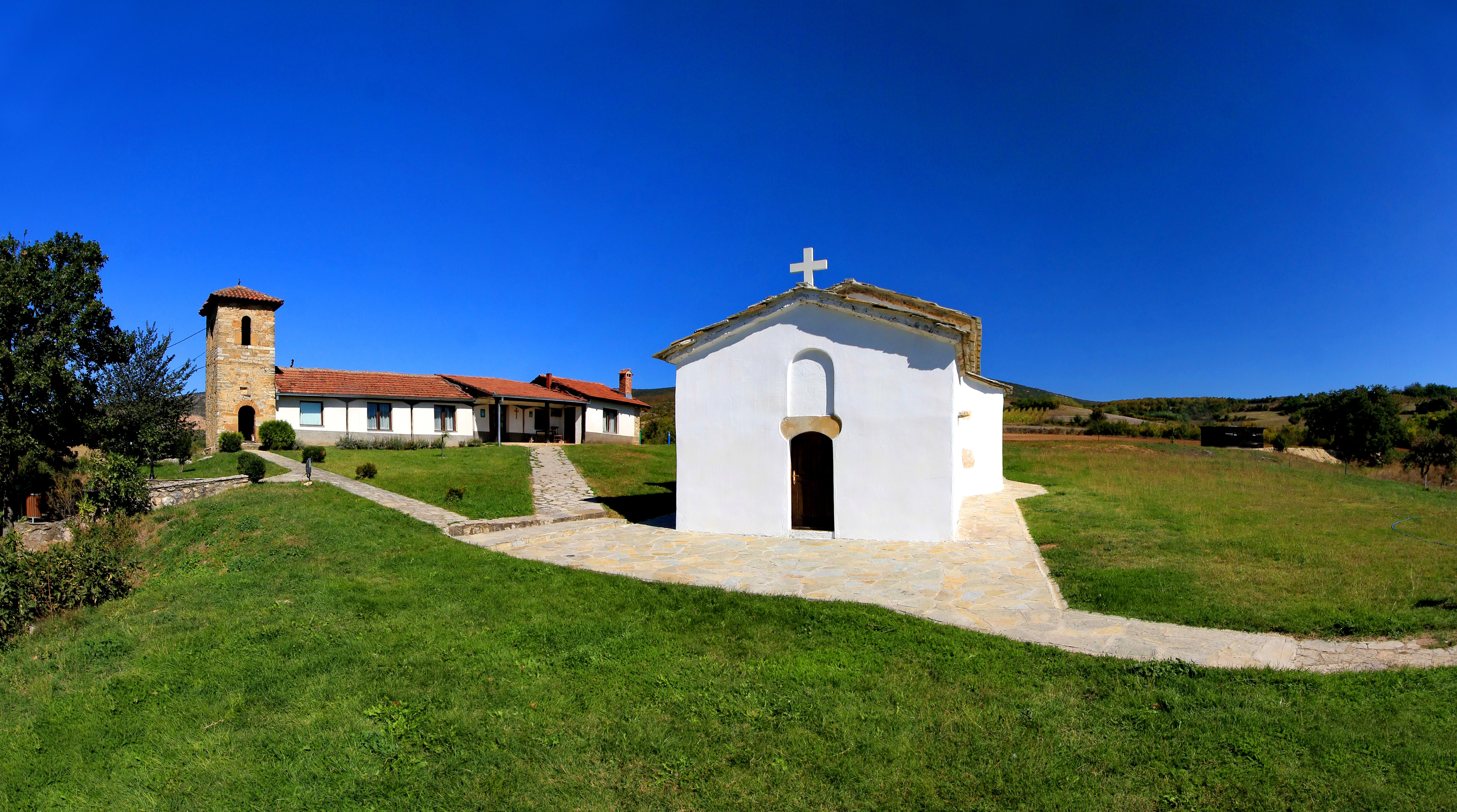 St. Nicholas Church at Grand HocaShqip: Kisha varrezore e Shën Nikollës në Hoçë të Madhe